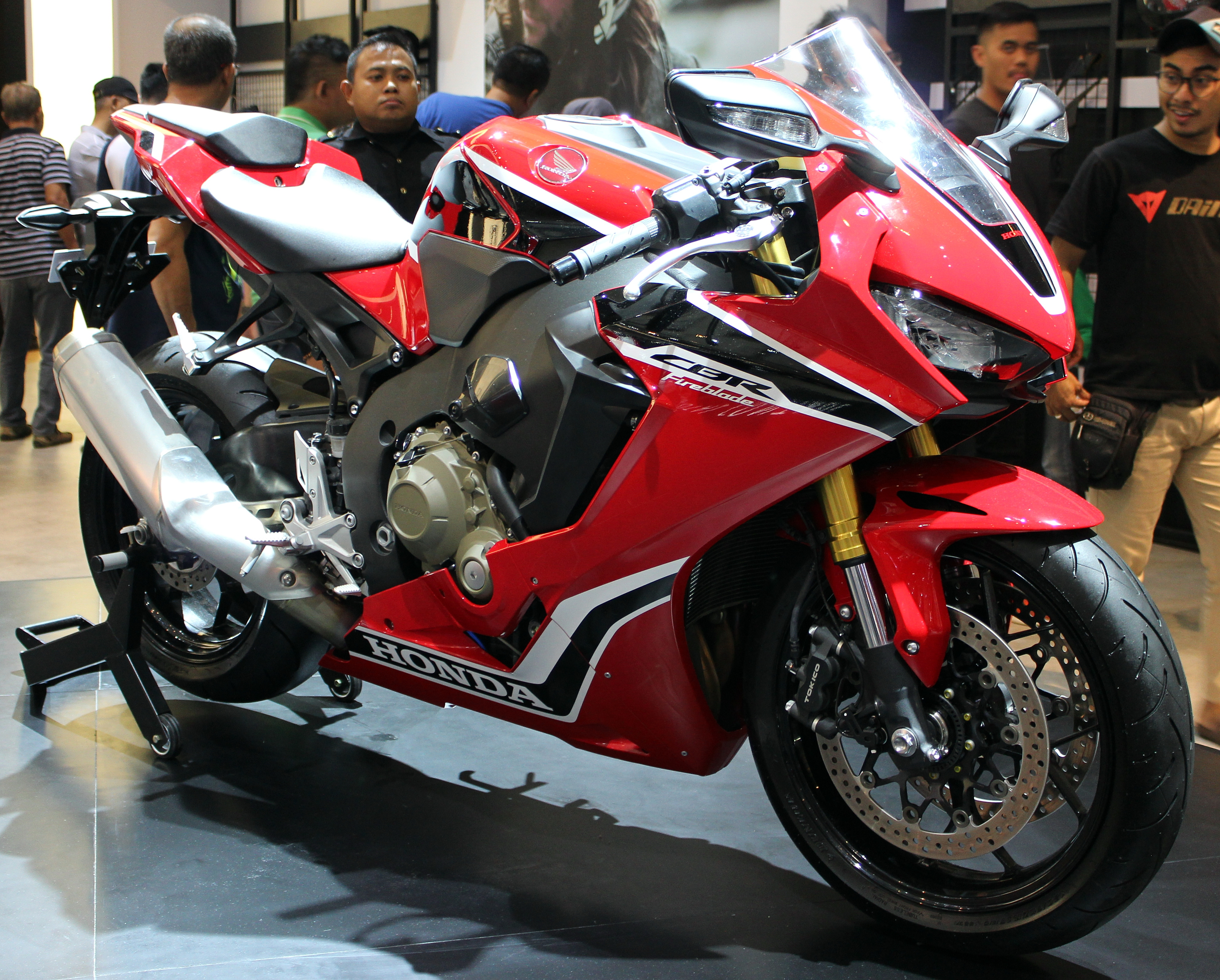 A Honda CBR1000RR Fireblade photographed in Indonesia International Motor Show 2017, Jakarta, Indonesia on April 30, 2017.